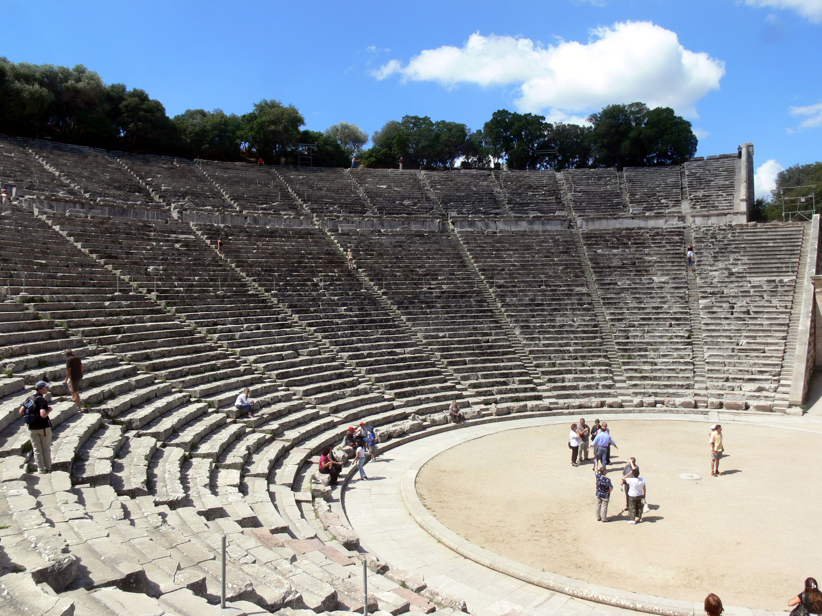 Theater in Epidaurus